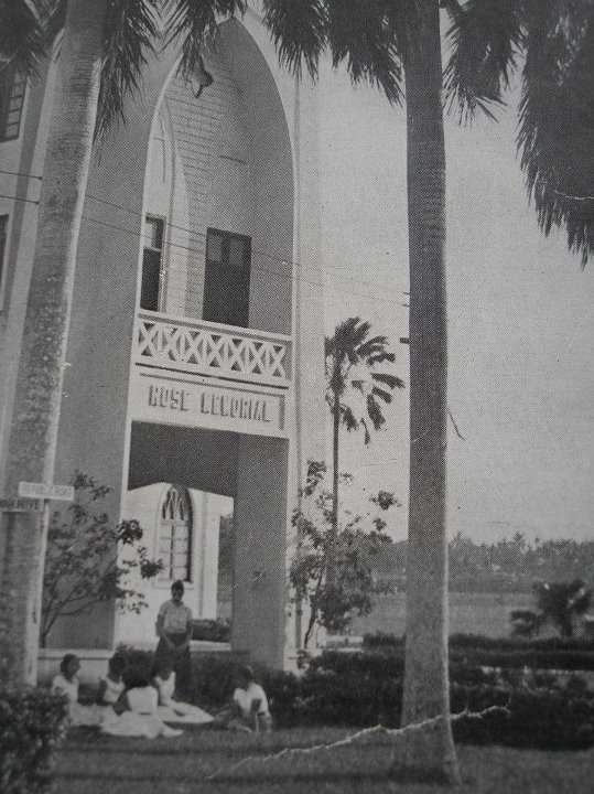 Old Rose Memorial Hall of Central Philippine University which was burned down by a fire in 1995